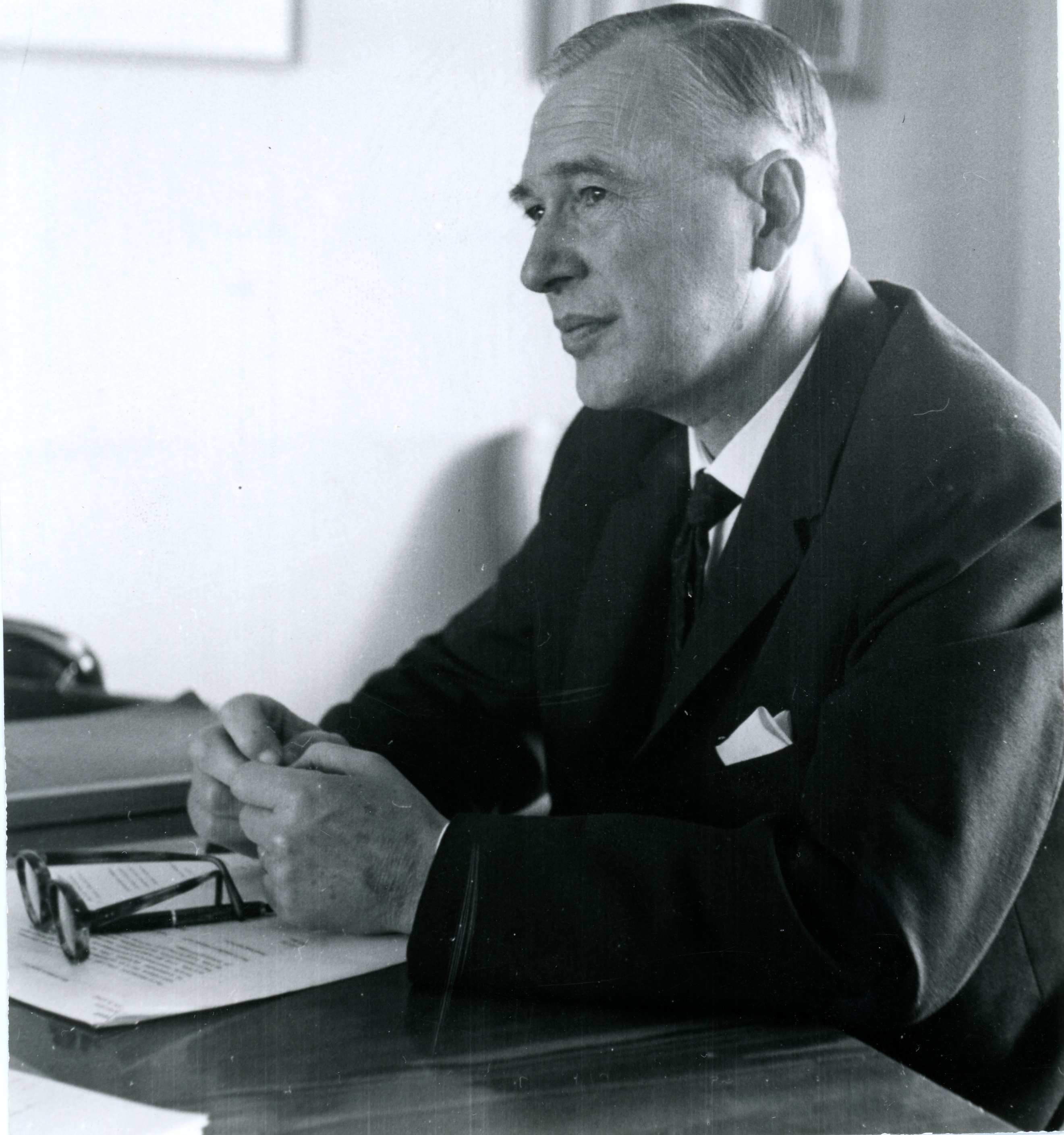 State archivist Yrjö Nurmio.